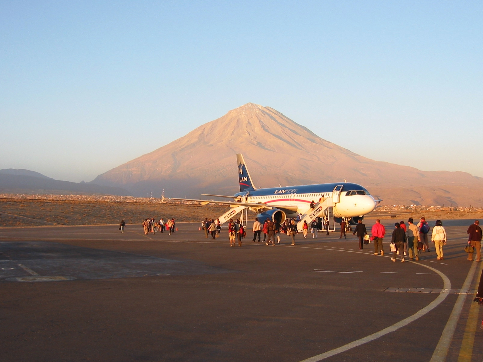 View of the volcano El Misti from Rodriguez Ballon International Airport in Arequipa, Peru.